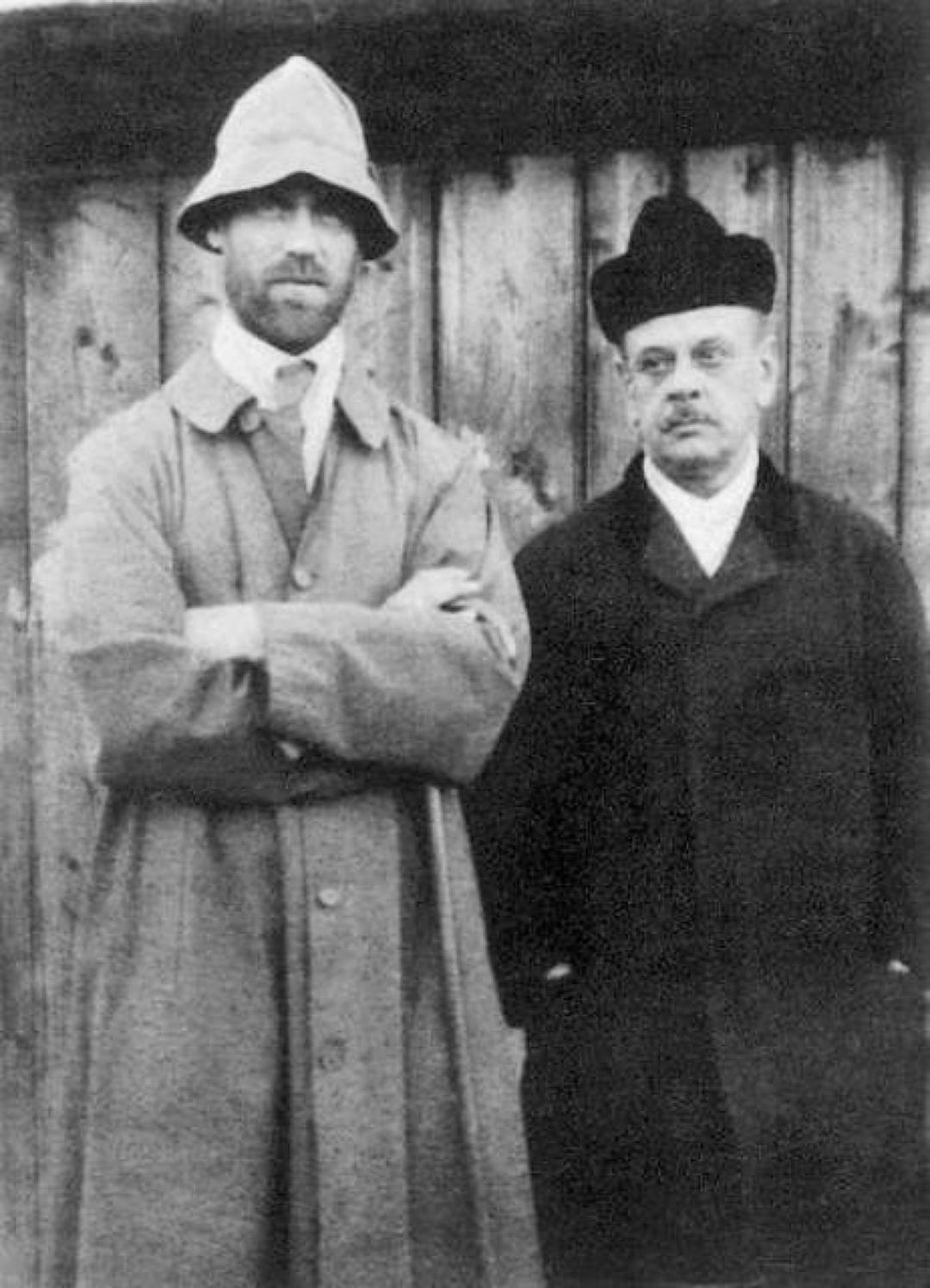 Photo of Great Duke Mikhail Alexandrovich Romanoff (left) and his secretary and personal friend Nikolay Nikolaevich Johnson, in April 1918 in Perm, Russia, where both were imprisoned by the Soviet Government. Mikhail Alexandrovich has a beard, as he made an oath not to shave till he would be free again.